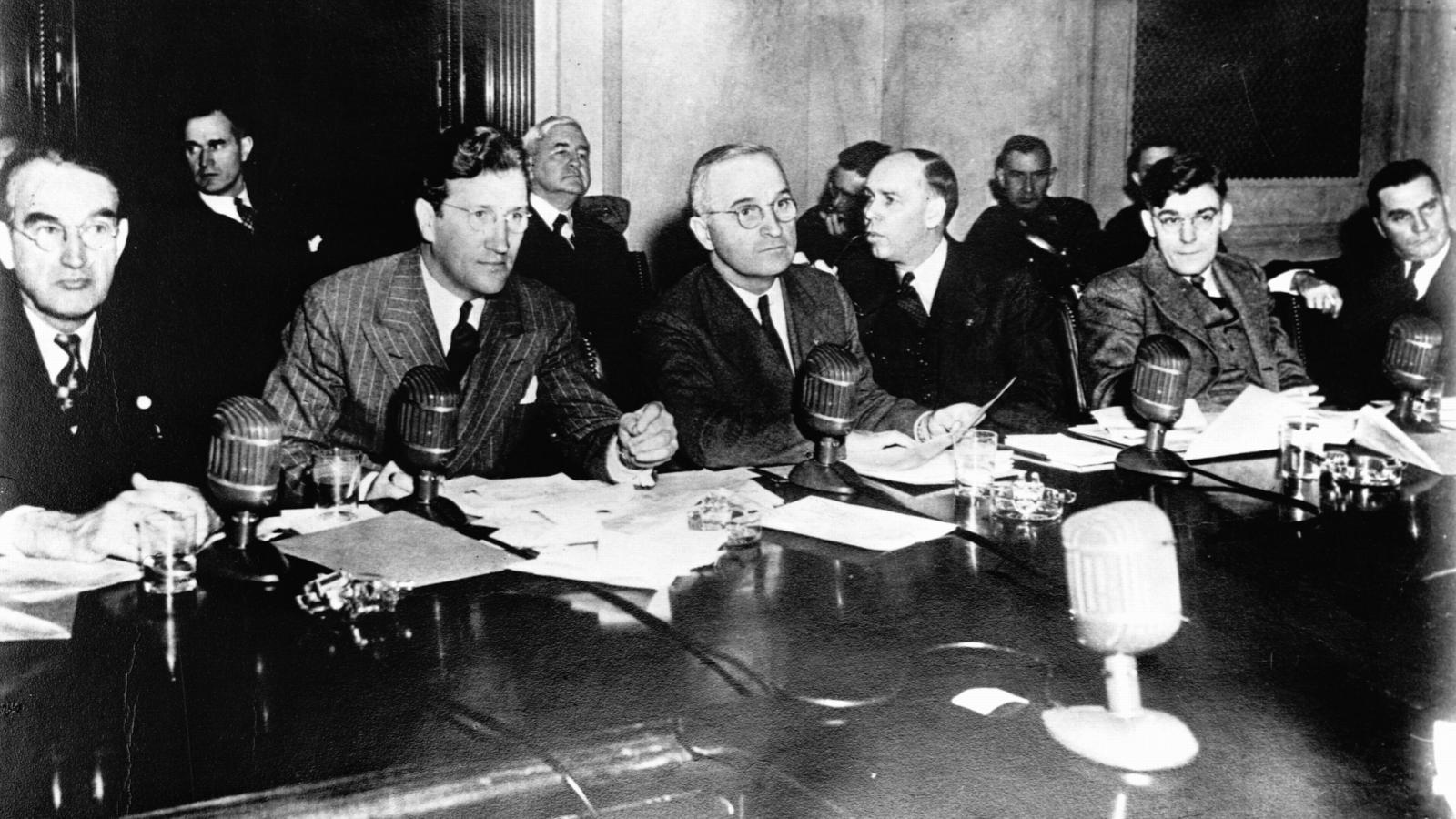 Senator Harry S. Truman and others at a meeting of the Senate Special Committee to Investigate the National Defense Program (the Truman Committee), held in the Senate Caucus room in 1943. In the foreground from left to right: Senator James M. Mead, associate counsel Charles P. Clark, Senator Harry S. Truman, Senator Ralph Owen Brewster, Senator Joseph H. Ball, and Senator Gerald P. Nye. Other versions